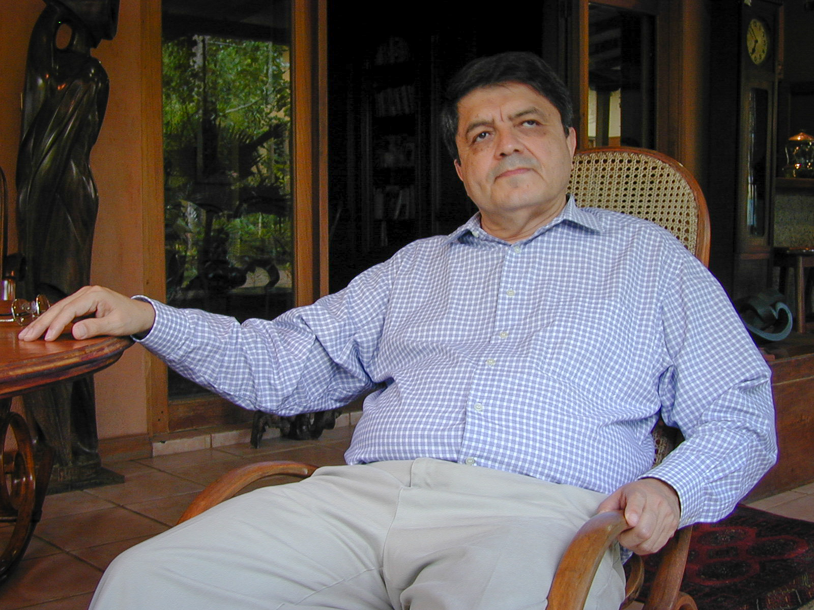 Sergio Ramirez in his residence in Managua